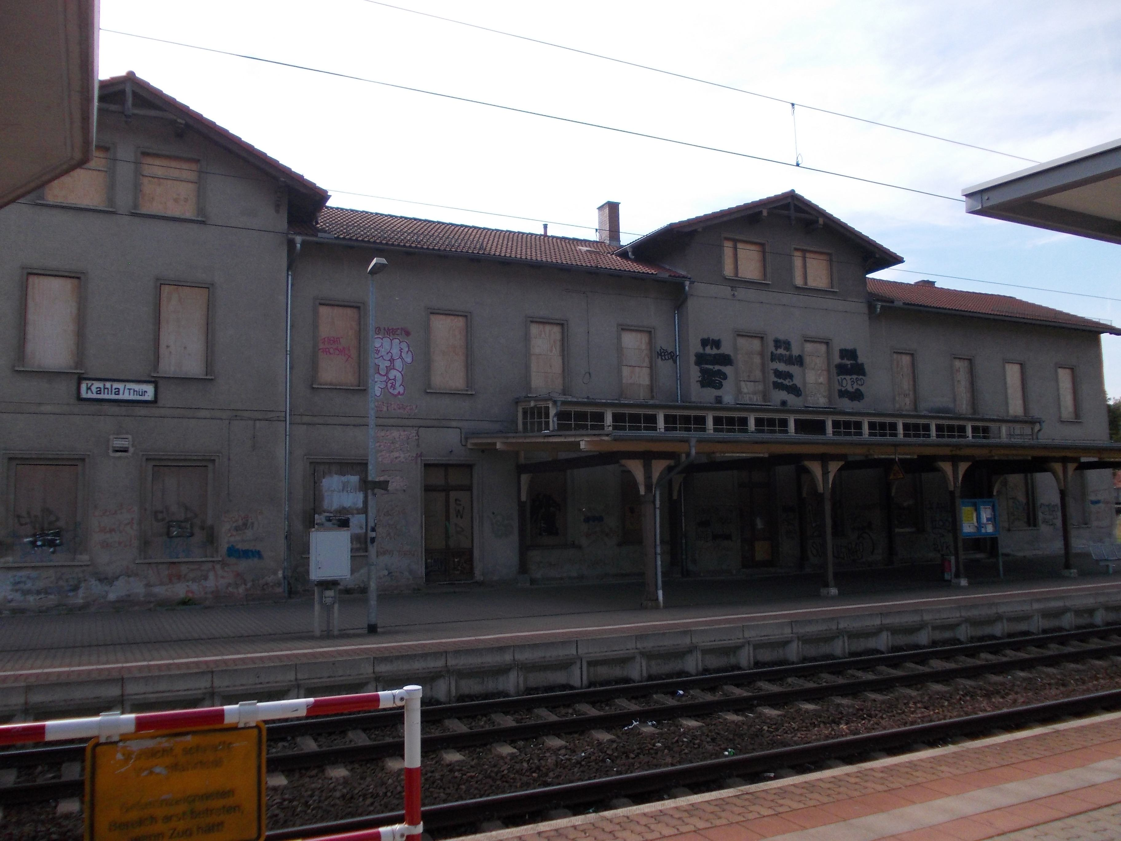 Kahla train station (district: Saale-Holzland-Kreis, Thuringia)